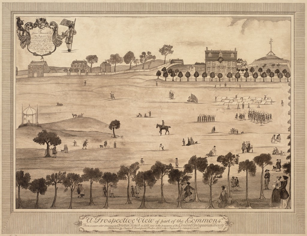 Image Title: A prospective view of part of the commons. Creator: Smith, Sidney Lawton, 1845-1929 -- Engraver. Additional Name(s): Remick, Christian, b. 1726.-- Artist. Hancock, John, 1737-1793 -- Dedicatee. Depicted Date: 1768. Medium: Engravings. Specific Material Type: Prints. Item Physical Description: 1 print ; 38.4 x 49.3 cm. Notes: 1902 engraving by Sideny L. Smith after Christian Remick's 1768 watercolor. Note 2.) Print dedicated to John Hancock. Note 3.) Print depicts October 1, 1768. Source: I.N. Phelps Stokes Collection of American Historical Prints.